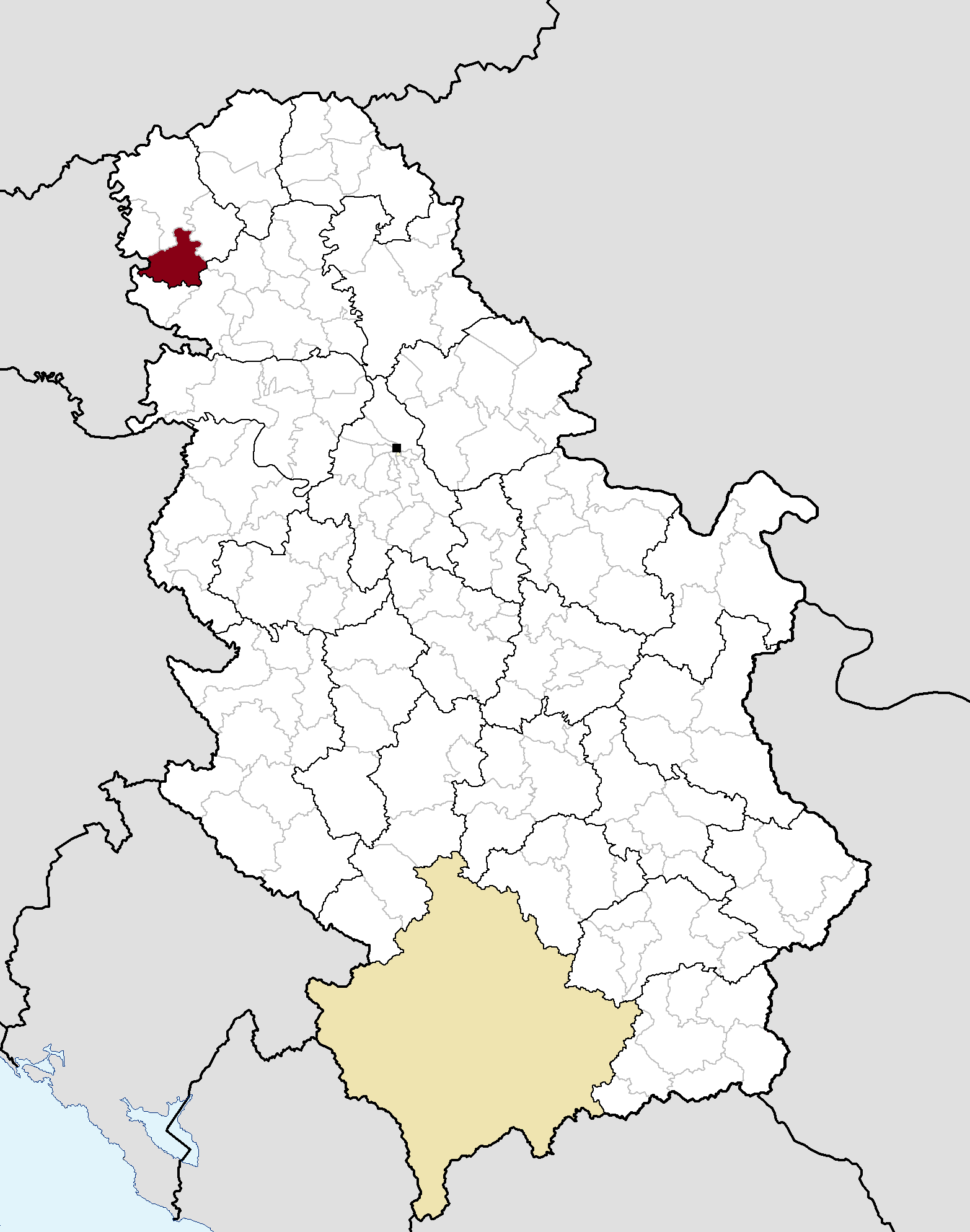 Municipal location in Serbia